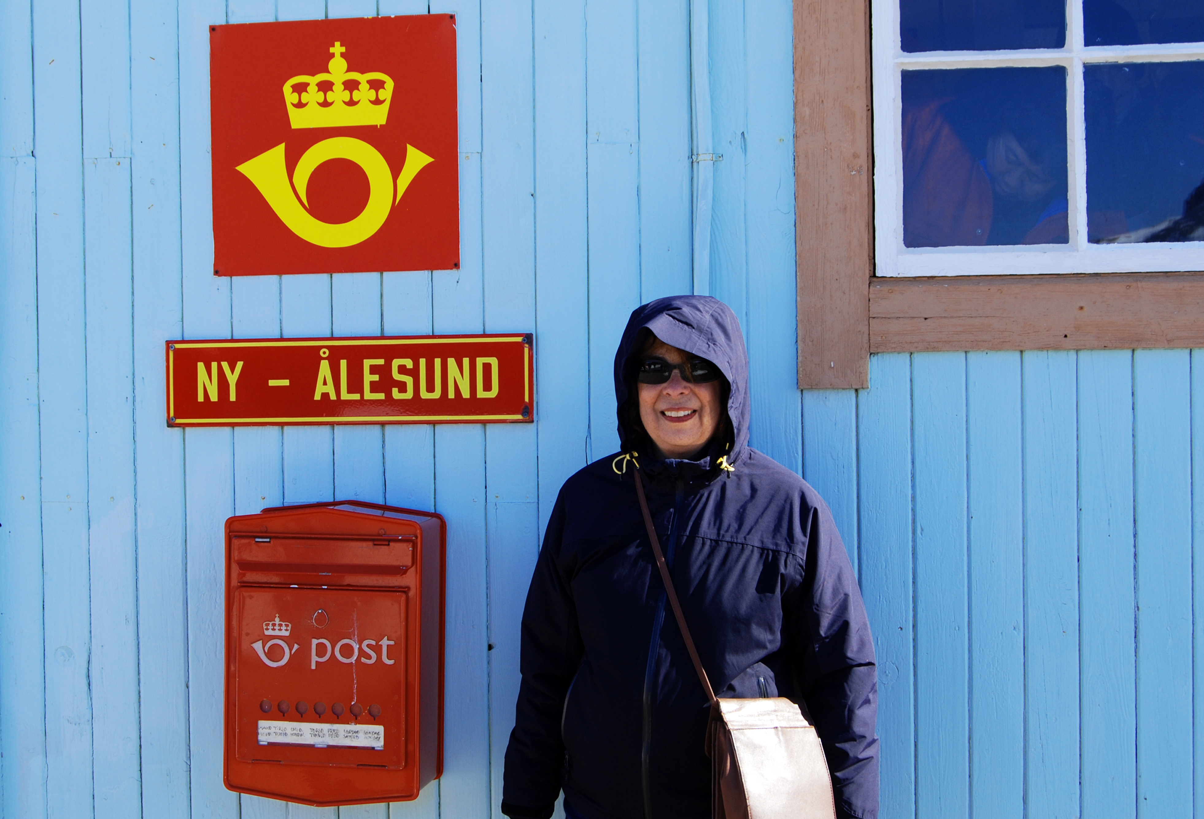 Ny-Ålesund is one of the four permanent settlements on the island of Spitsbergen in the Svalbard archipelago. / Most northerly Post Office in the world